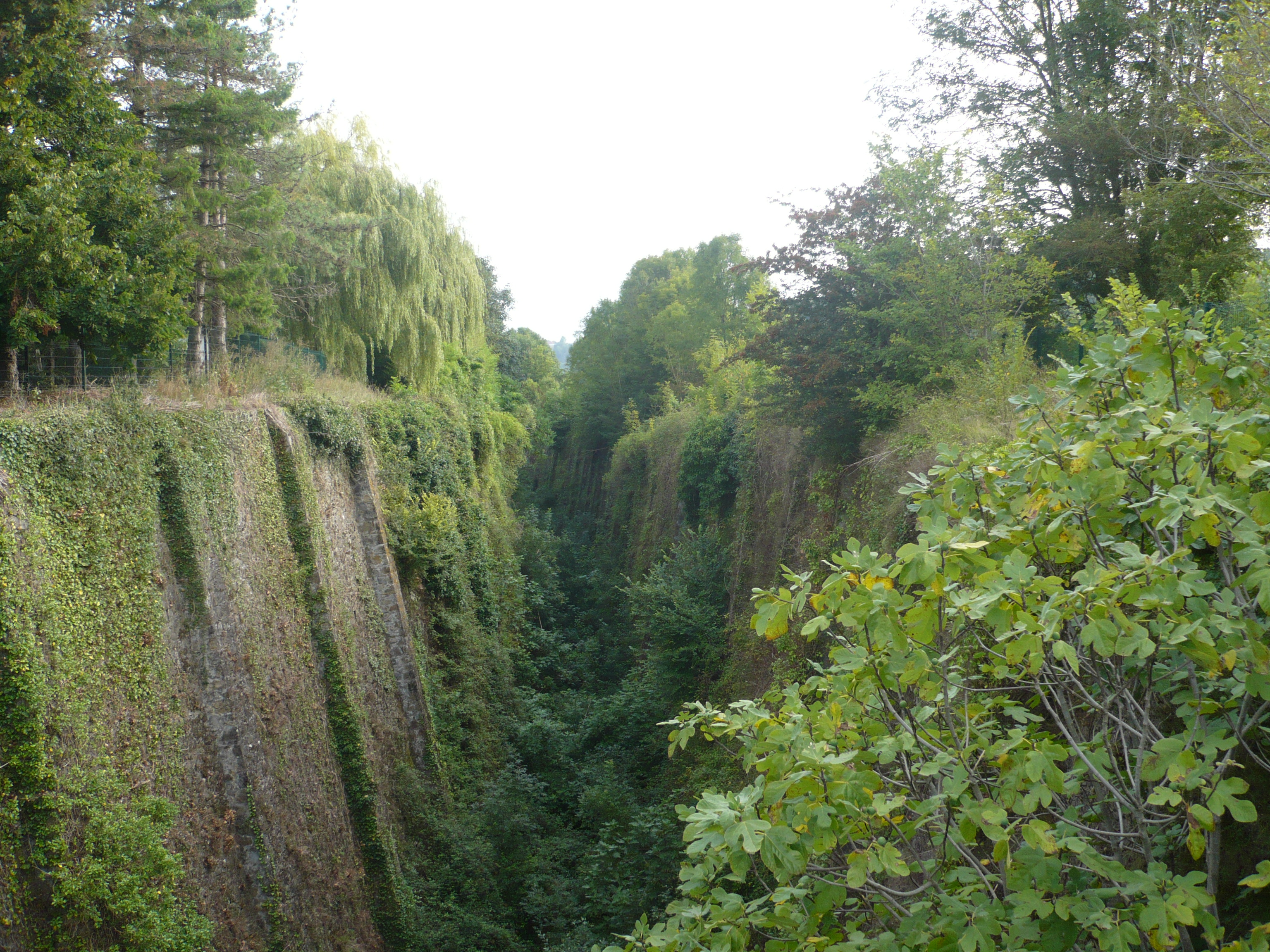 Trench made for the Pujòu-Donapaleu (fr Puyoô-Saint-Palais) train, Arboti (fr Arbouet), Lower Navarre, Basque Country.